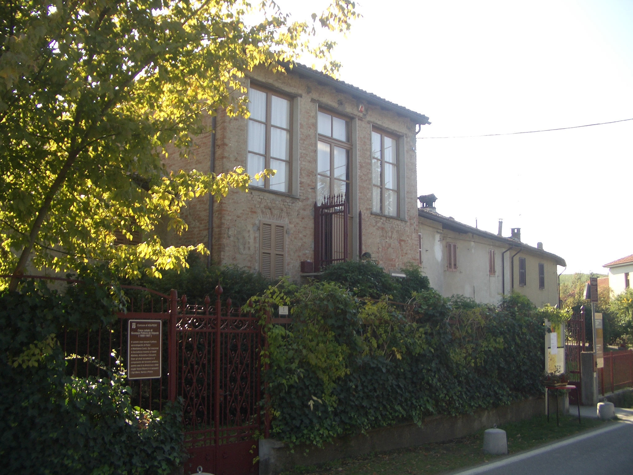 Atelier of the painter Giuseppe Pellizza da Volpedo (1868-1907), Volpedo, Alessandria, Italy